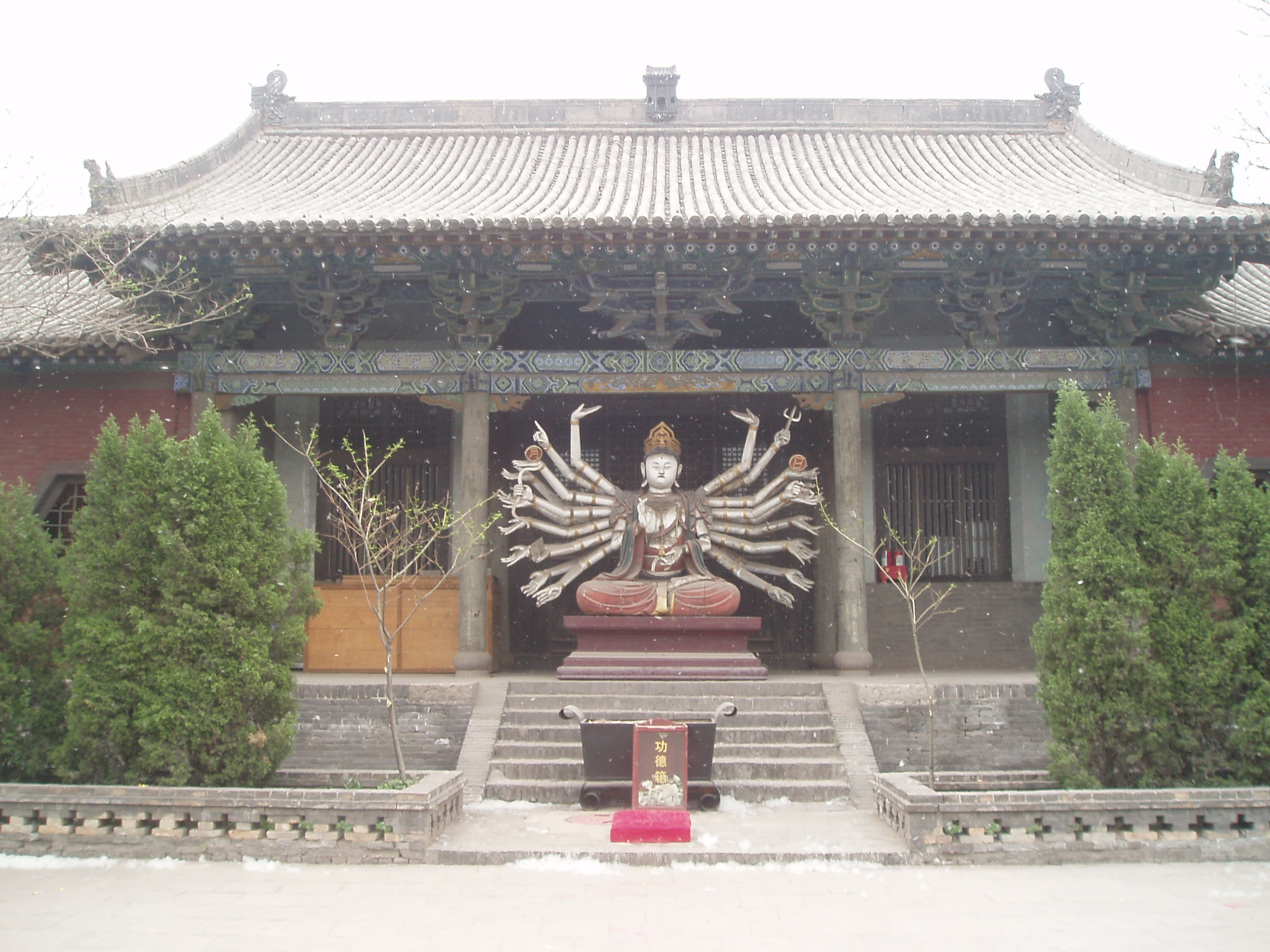 A a hall containing the sttue of Guanyin just inside the Shuanglin temple.